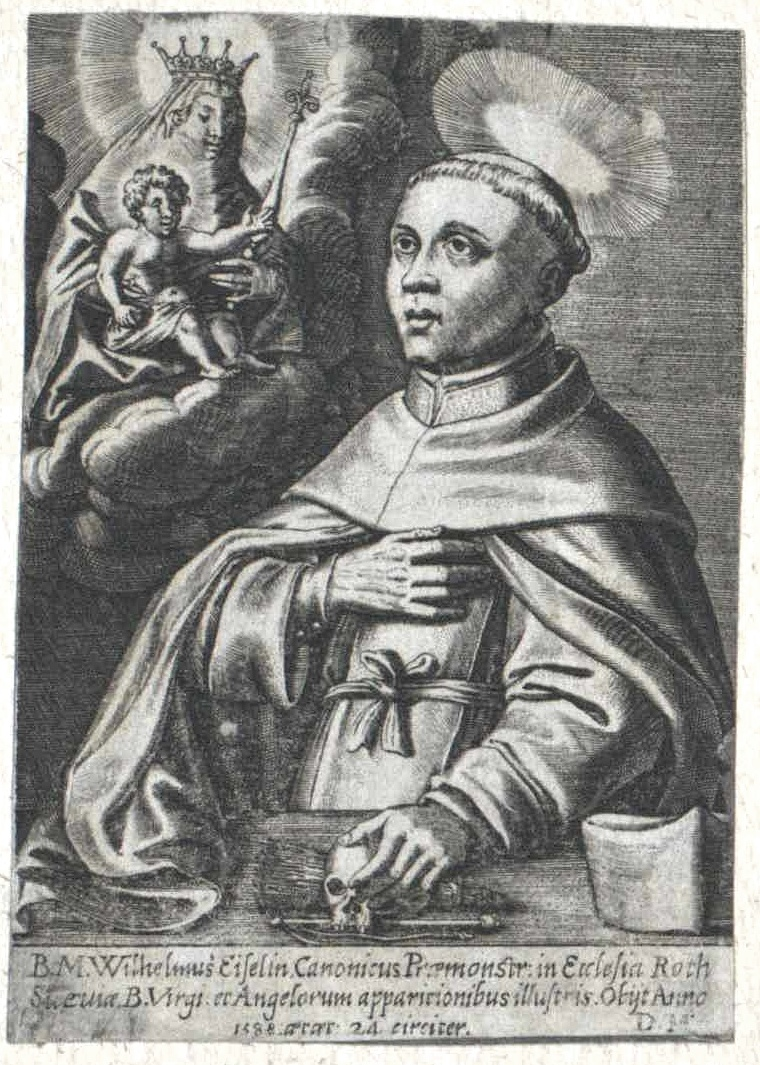 Seliger Wilhelm Eiselin (+ 1588)